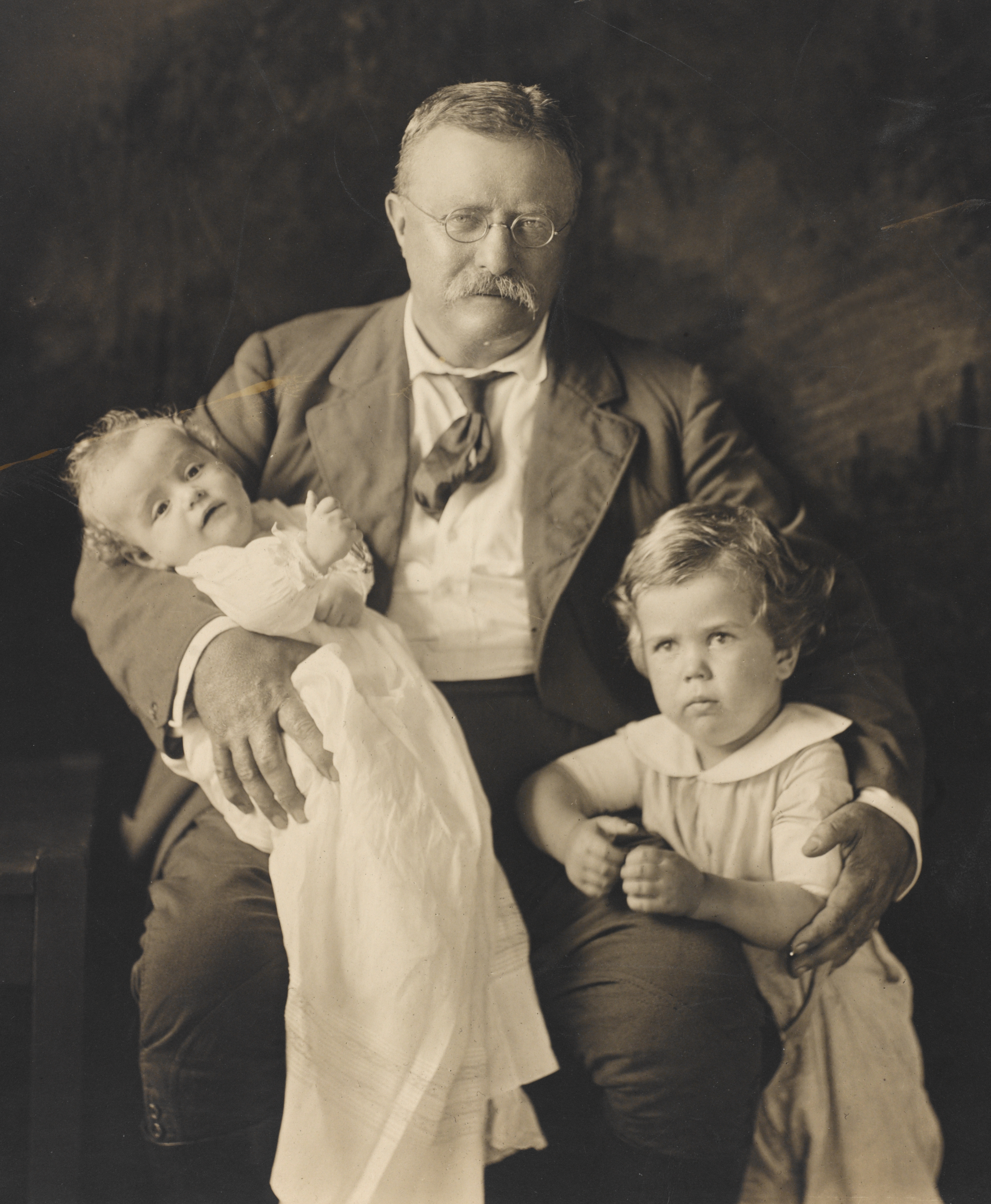 "Theodore Roosevelt with Master Richard Derby and holding Kermit Roosevelt, Jr"